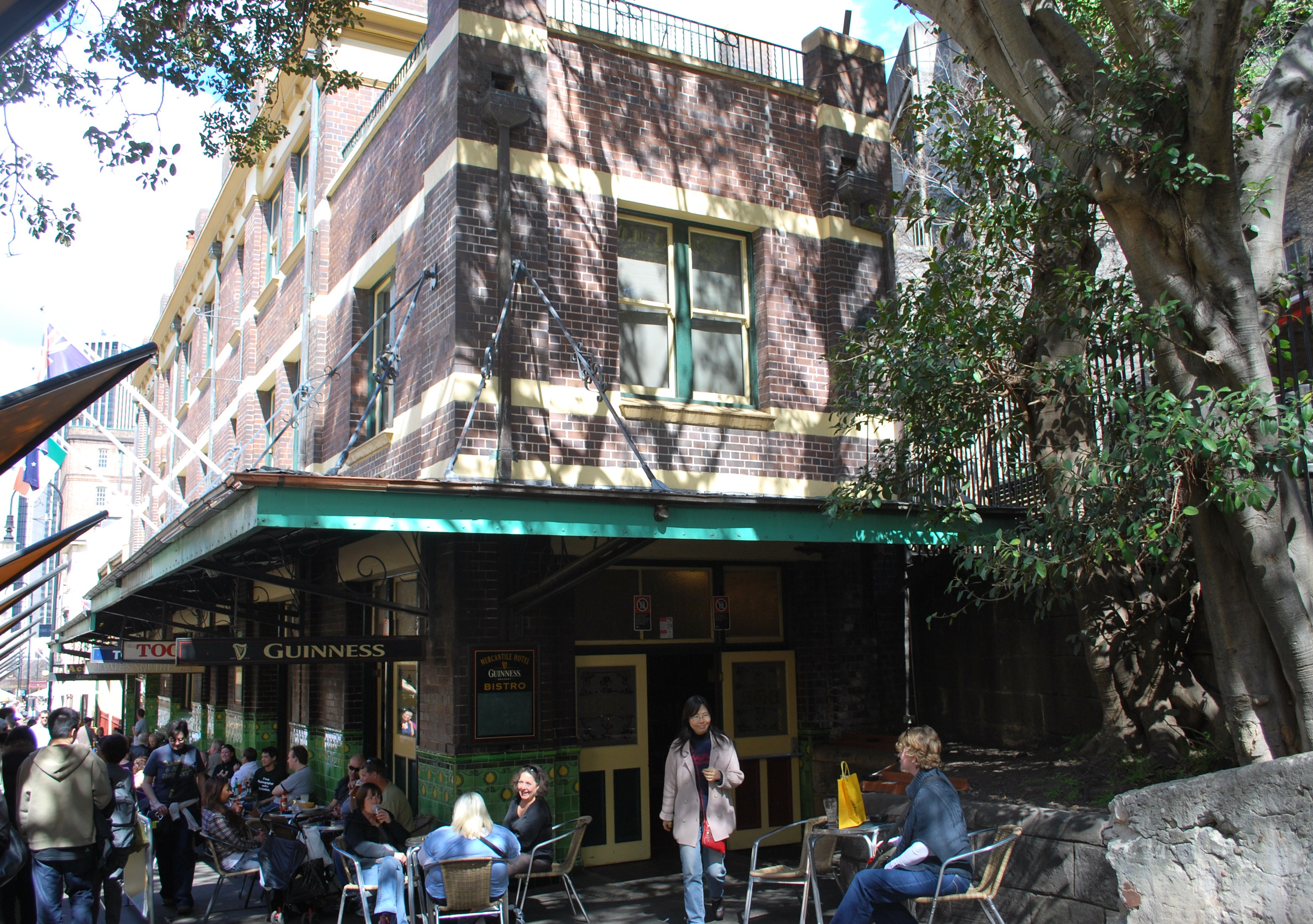 Mercantile Hotel, in lower George Street, The Rocks, Sydney, New South Wales, Australia